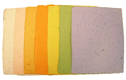 Paper made from processed elephant dung.